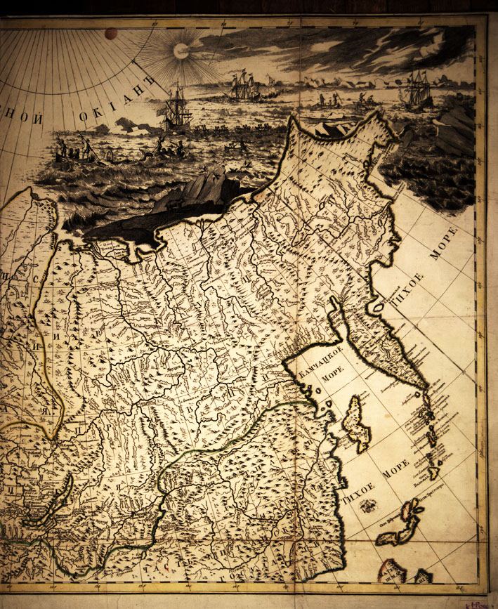 Ivan Kirilov: General map of Russian Empire … presenting with possible correctness in a real outlook all the territory of Russian Empire with its provinces. It was begun by the wise intention of Peter the Great … completed at the time of Empress Elizaveta Petrovna … published to nationwide utilization … 1745. [St.Petersburg, Acad.Sci.], 1745.